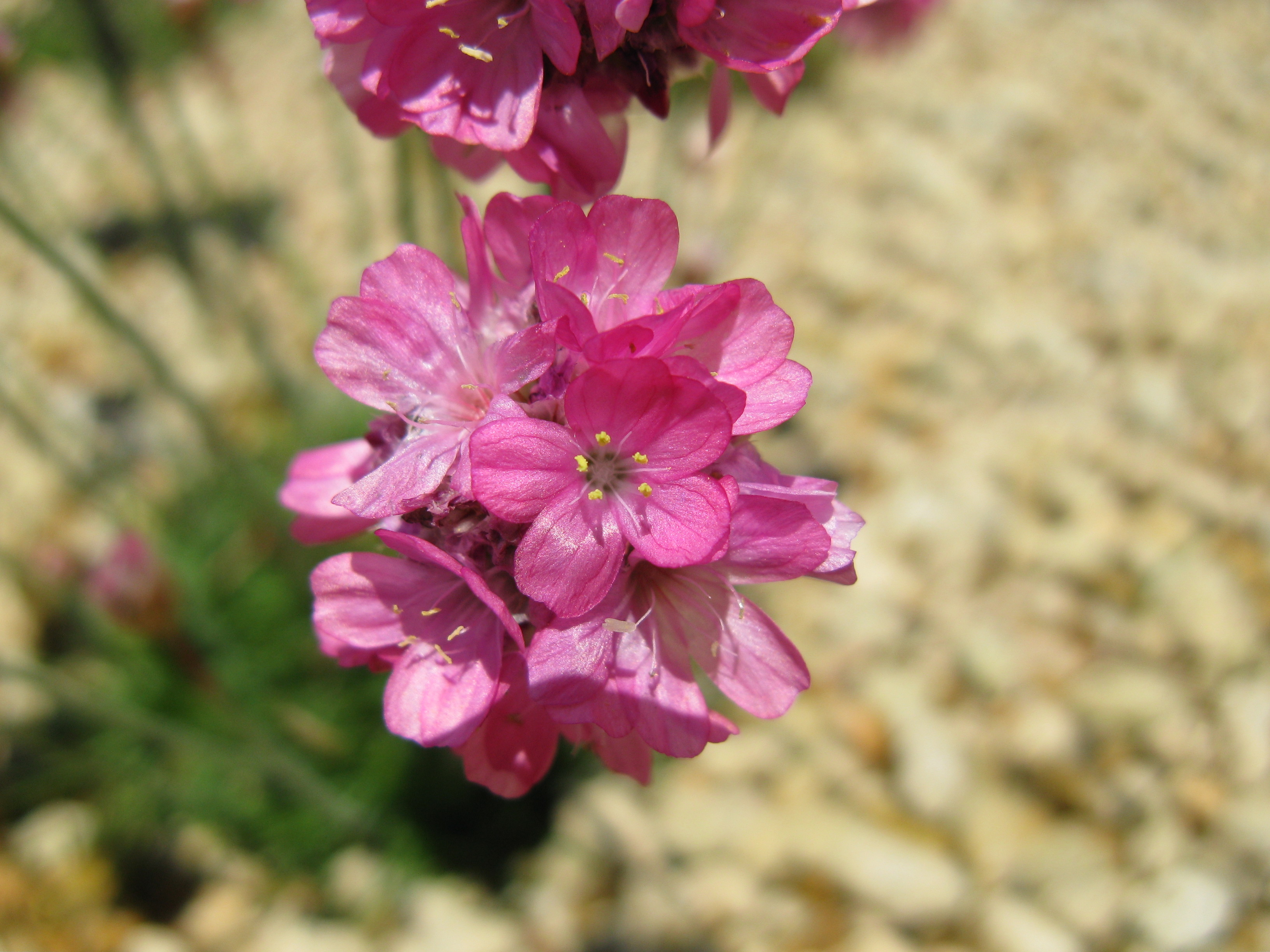 Armeria caespitosa Place:Osaka Prefectural Flower Garden,Osaka,Japan